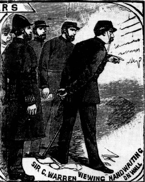 The Illustrated Police News - 20 October 1888 - Sir Charles Warren viewing handwriting on wall